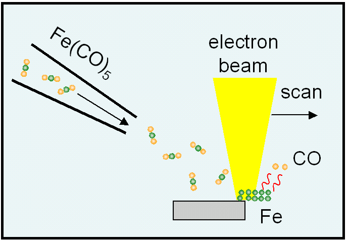 Schematic of electron beam induced deposition process